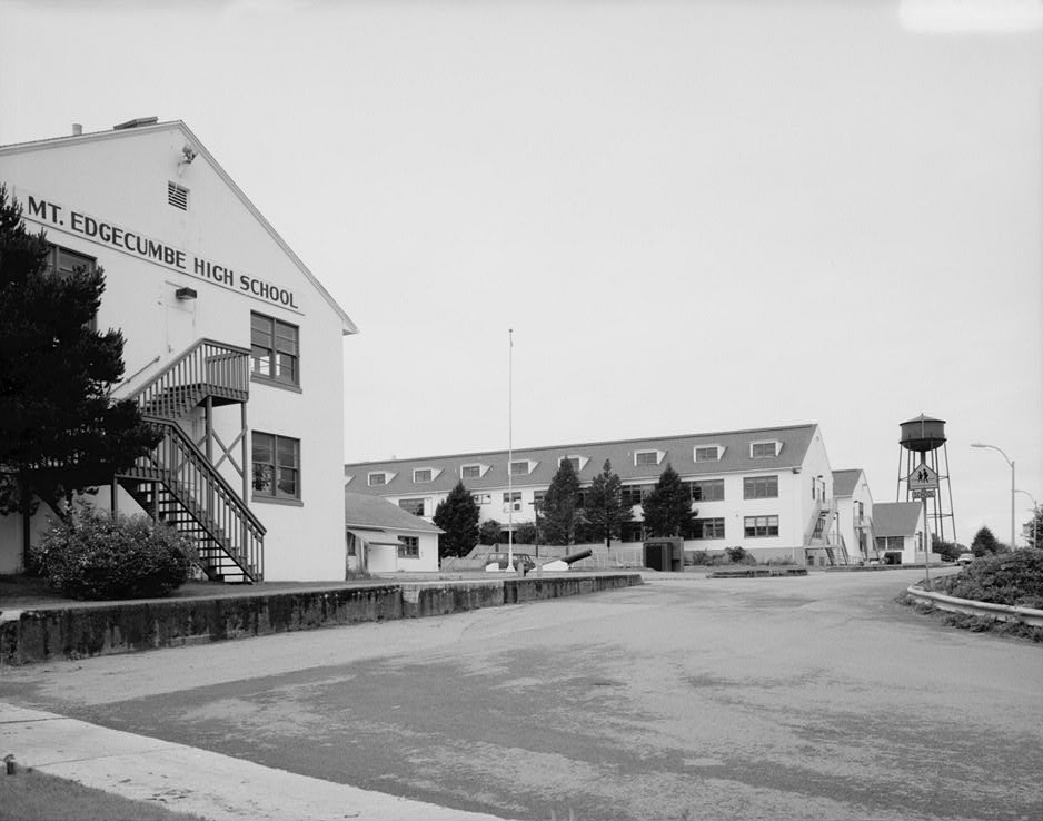 Administration building (left) and barracks at the former Sitka Naval Operating Base, located on Japonski Island in Sitka, Alaska, United States. In combination with nearby coastal defenses, the buildings (built in 1941) compose a National Historic Landmark District.